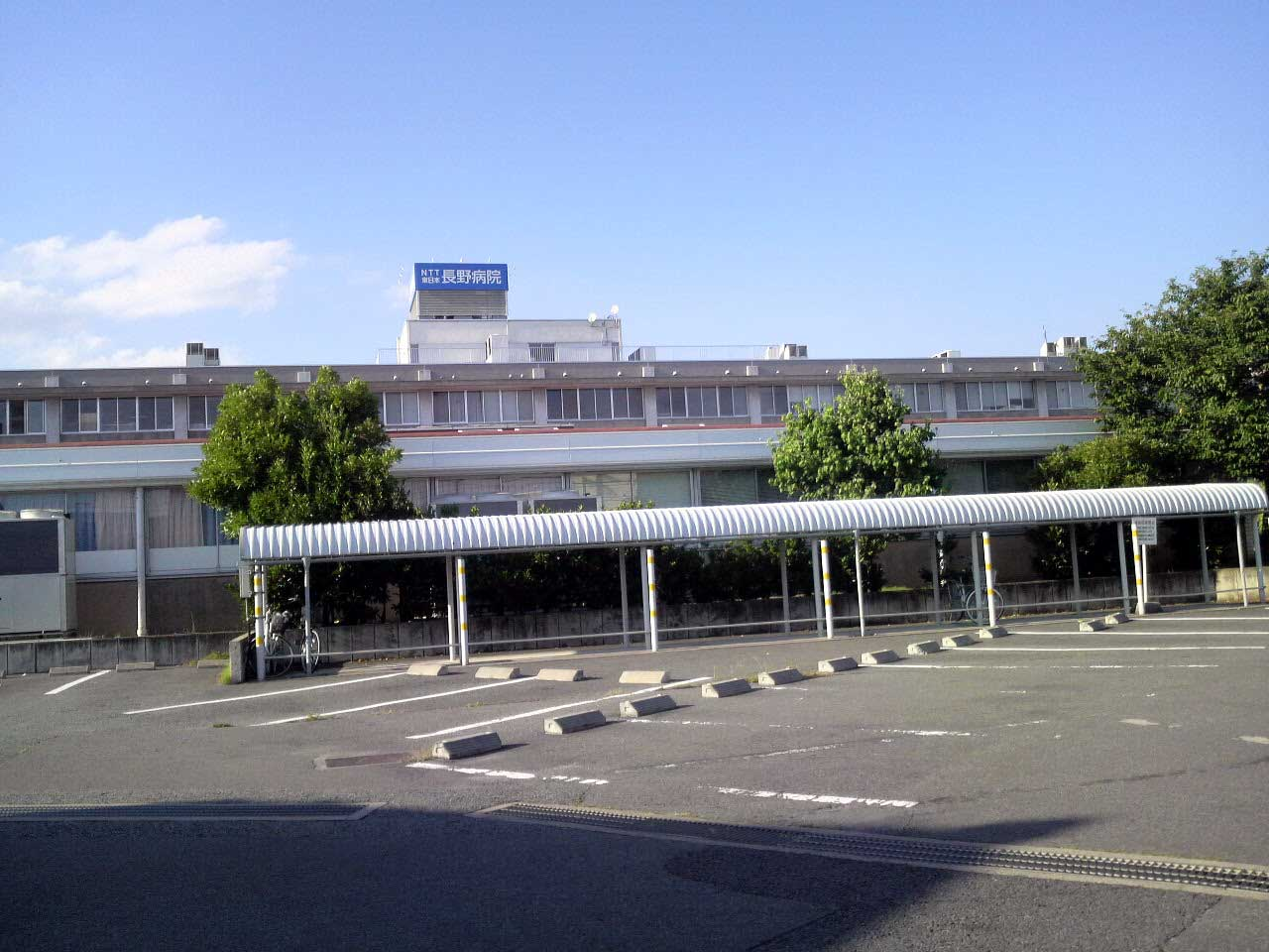 NTT East Nagano Medhical Center